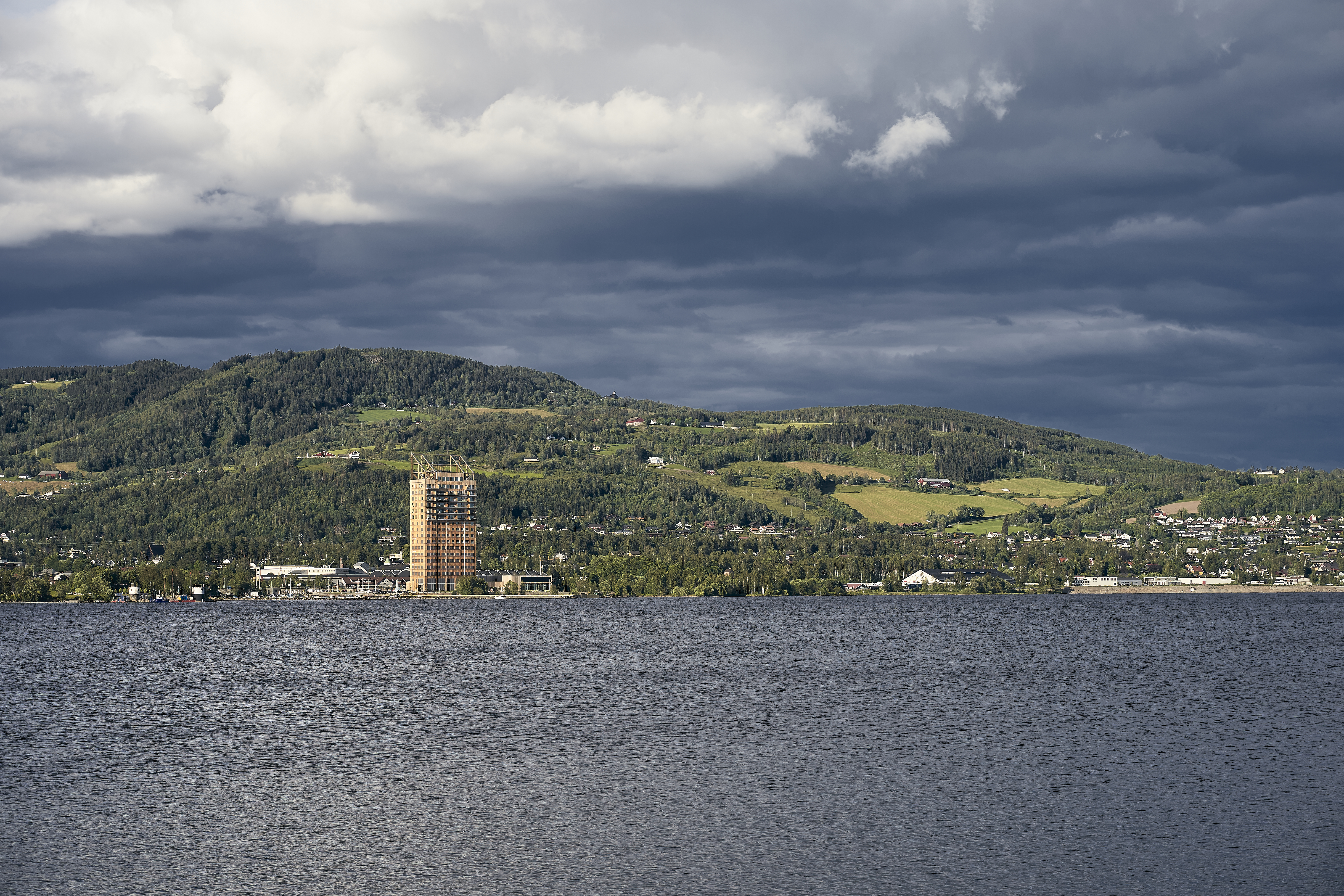 Skyscraper by Lake Mjøsa.